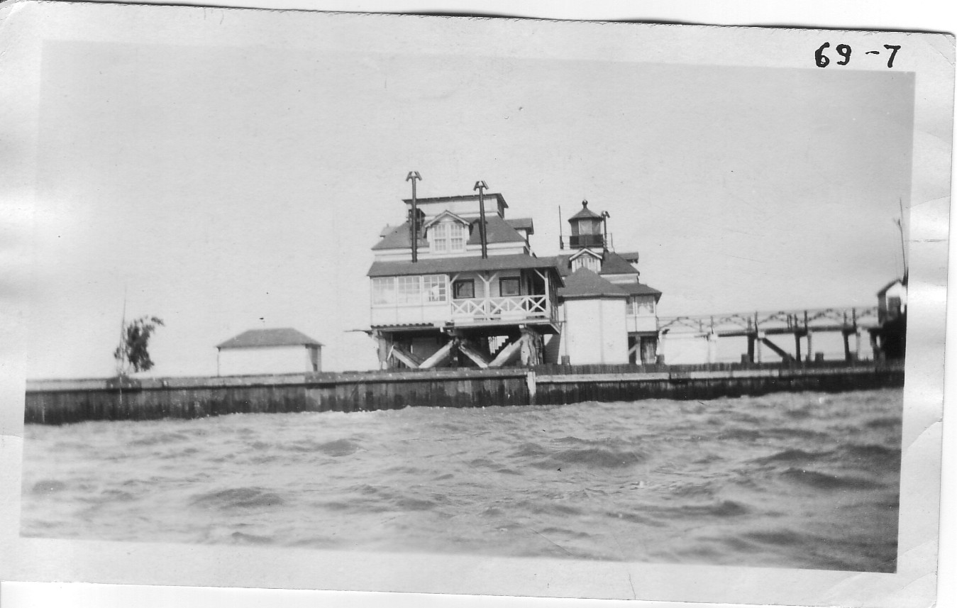 Public Domain statement here; Roe Island Light, 1924; Original caption: "Roe Island New Bulkheads Completed August 7, 1924."; photo dated 1924; Photo No. C88; photographer unknown.